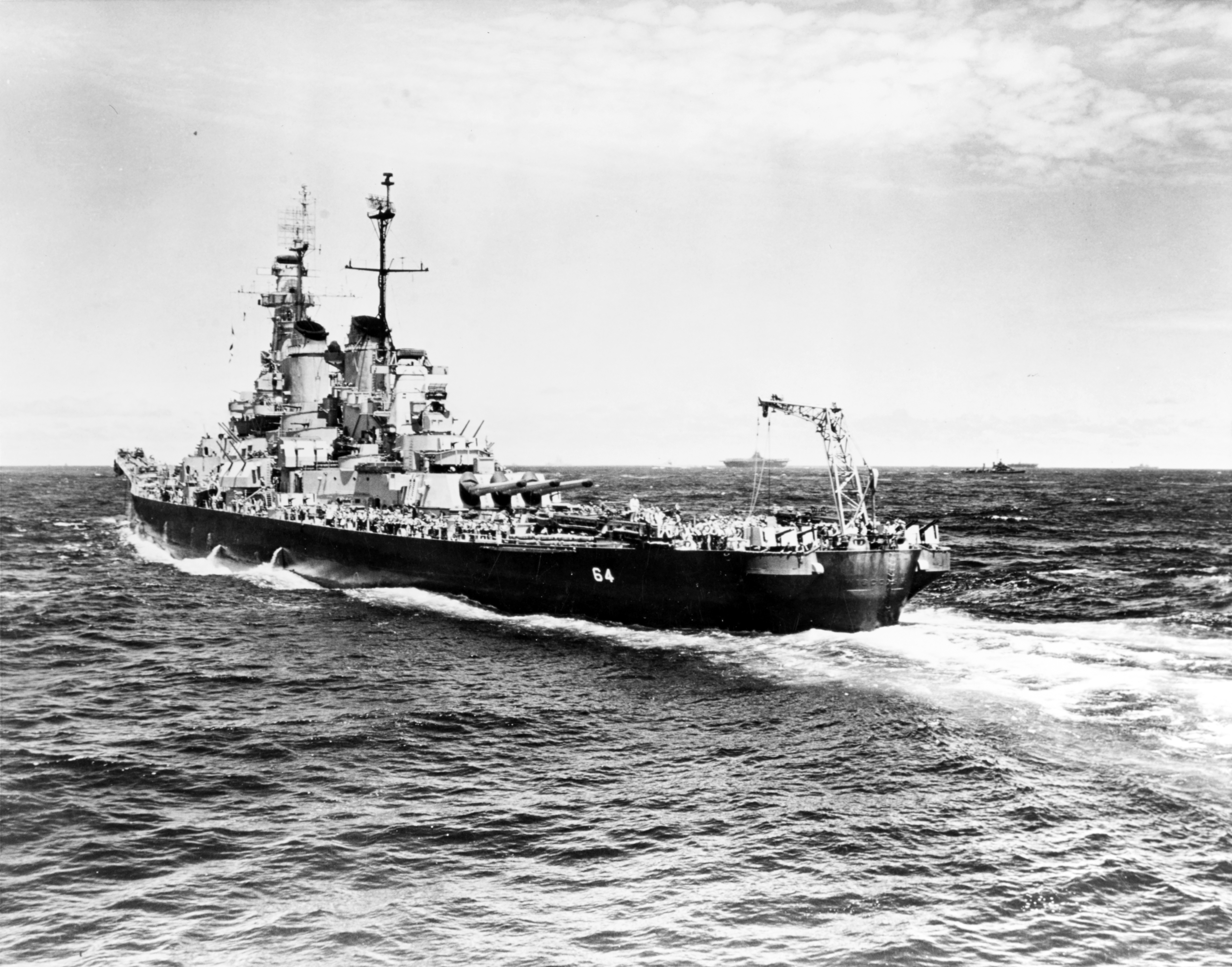 USS Wisconsin (BB-64) underway with other warships in the western Pacific Ocean, circa December 1944 - August 1945. Official United States Navy Photograph, now in the collections of the National Archives and Records Administration. Removed caption read: Photo # 80-G-470324 USS Wisconsin in the western Pacific, 1944-45